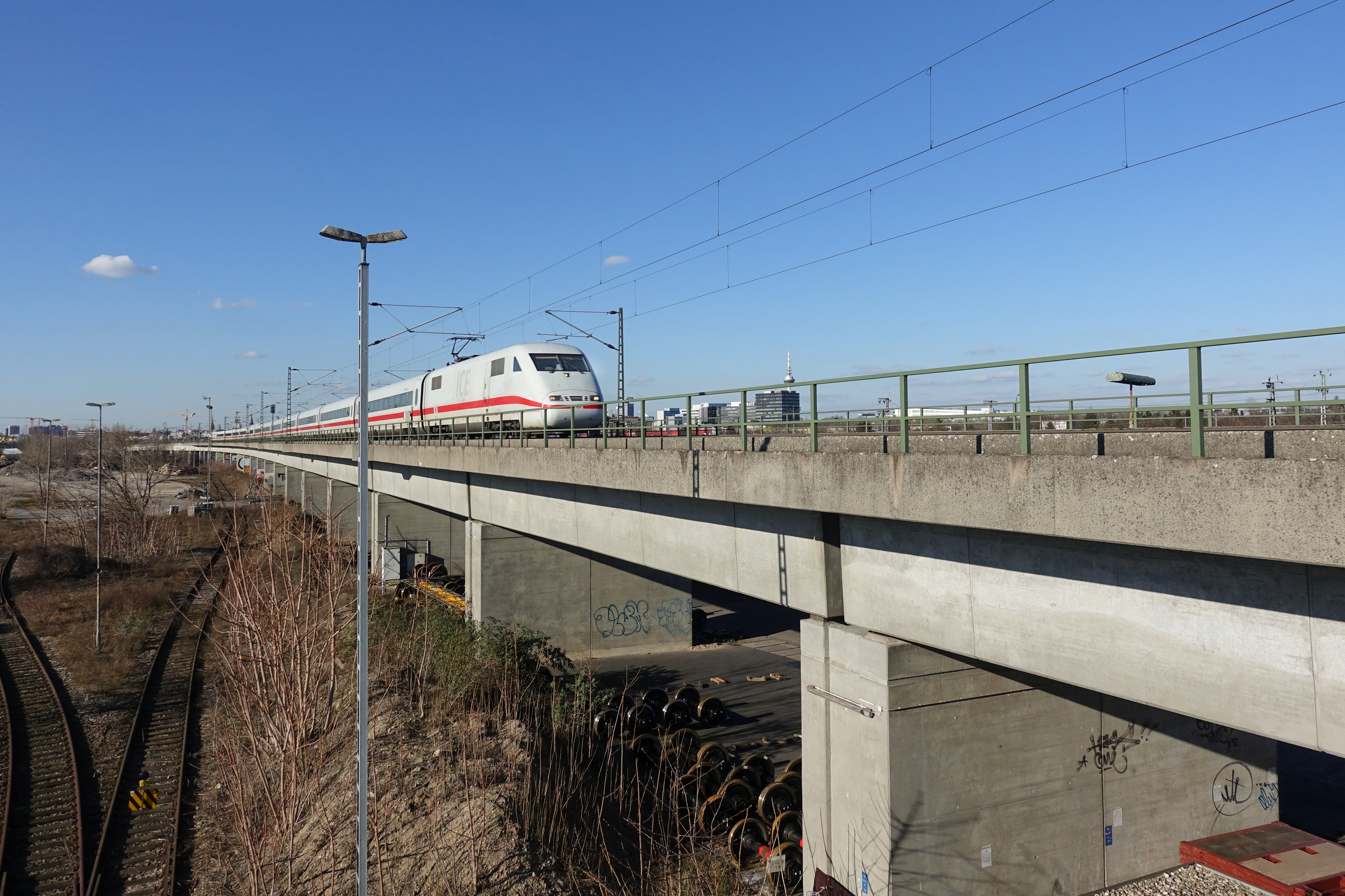 Container station bridge in Mannheim, Germany, with ICE fast train from main station Mannheim on its way to Munich